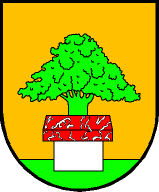 Oberalm (Austria) Coat of Arms.